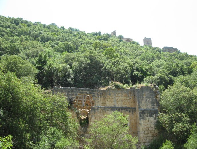 The lower fortifications and the mill/guesthouse below the castle Montfort in Nahal Keziv